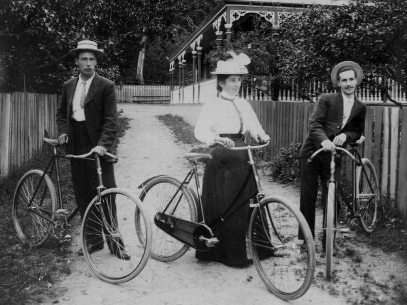 Three cyclists in Thames, New Zealand, around 1895. Extended description on origin website reads: Alexander Darrow, Mary Elizabeth Darrow and George Darrow with bicycles, Thames / When: ca 1895 / Format: 1 b&w original negative(s).; Horizontal image.; Single negative. / Description: Alexander Darrow, Mary Elizabeth Darrow and George Darrow with bicycles. Taken in Thames circa 1895. / Subjects: Darrow, Alexander, fl 1895 (Subject) ; Darrow, Mary Elizabeth, fl 1895 (Subject) ; Darrow, George, fl 1895 (Subject) ; Outdoor recreation for women ; Bicycles ; Outdoor recreation ; Cycling ; Thames ; 1895 / ID: 1/2-152835-F